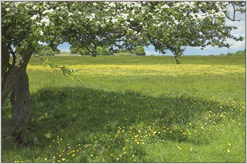 Minchinhampton Common in blossom Minchinhampton Common as it looks before the cows eat it!